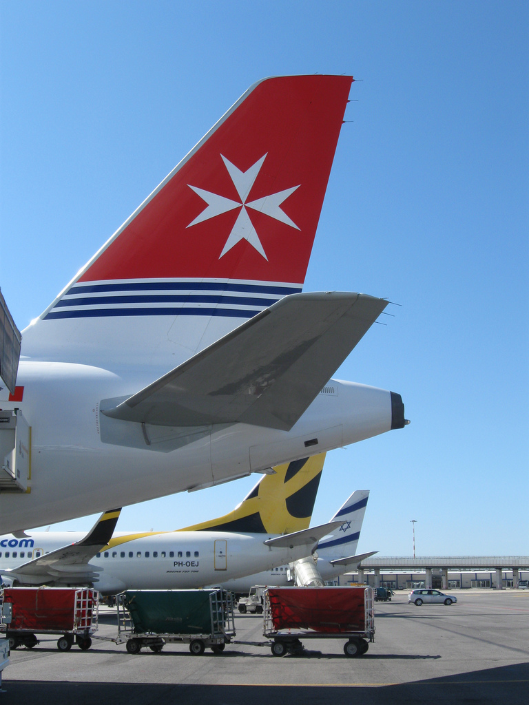 Tailfin of an Air Malta aircraft at Rome Fiumicino Airport (FCO).